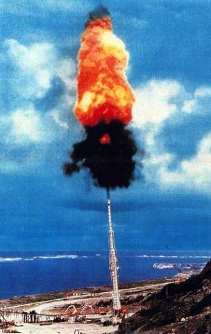 Photos of a HARP 16 inch gun. Found here, (if still online).